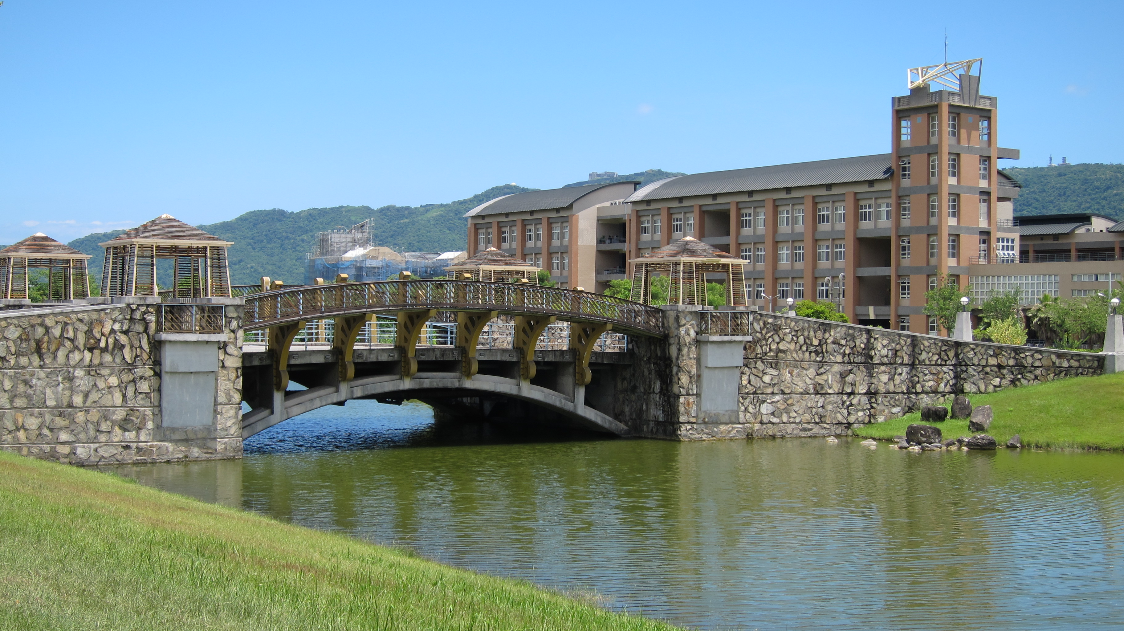 Bridge next to Dong Lake in National Dong Hwa University